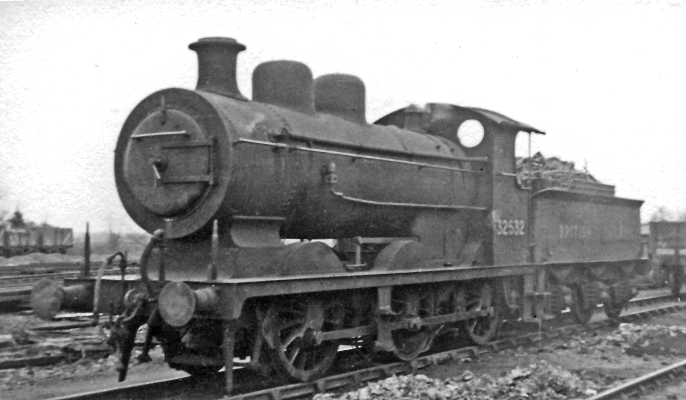 Ex-LB&SCR 'Large Vulcan' C2X 0-6-0 at Three Bridges Locomotive Depot. Distinguished by their double domes and built by the Vulcan Foundry, the LB&SCR C2X class 0-6-0s were reboilered R. Billinton C2s: No. 32532 was built as C2 No. 532 10/1900, rebuilt 7/1911, withdrawn 5/60. Three Bridges Depot remained after electrification of the main lines primarily for the freight traffic and had an allocation in 1949 of 34:- 6 2-6-0, 13 0-6-0, 5 4-4-2T and 10 0-6-2T.